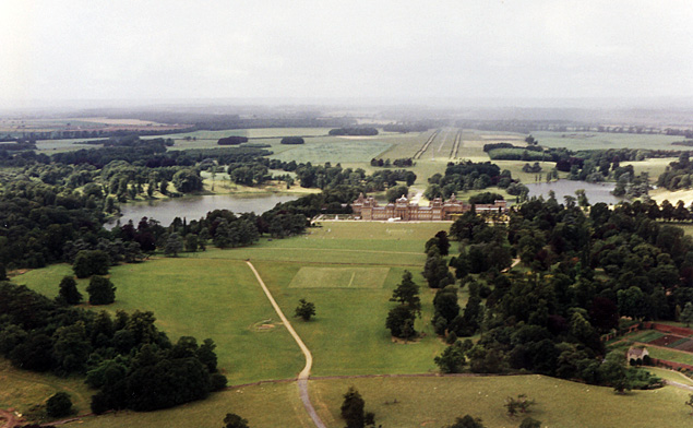 Blenheim Palace from the Air. Taken from overhead Lower Park, the Grand Lake, Queen Pool and the avenue beyond are clearly visible. The cricket pitch, in use in 619806, is visible in front of the house.